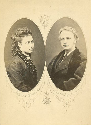 The engagement photo of Princess Louise (Marchioness of Lorne and Duchess of Argyll) and John, Marquess of Lorne and 9th Duke of Argyll